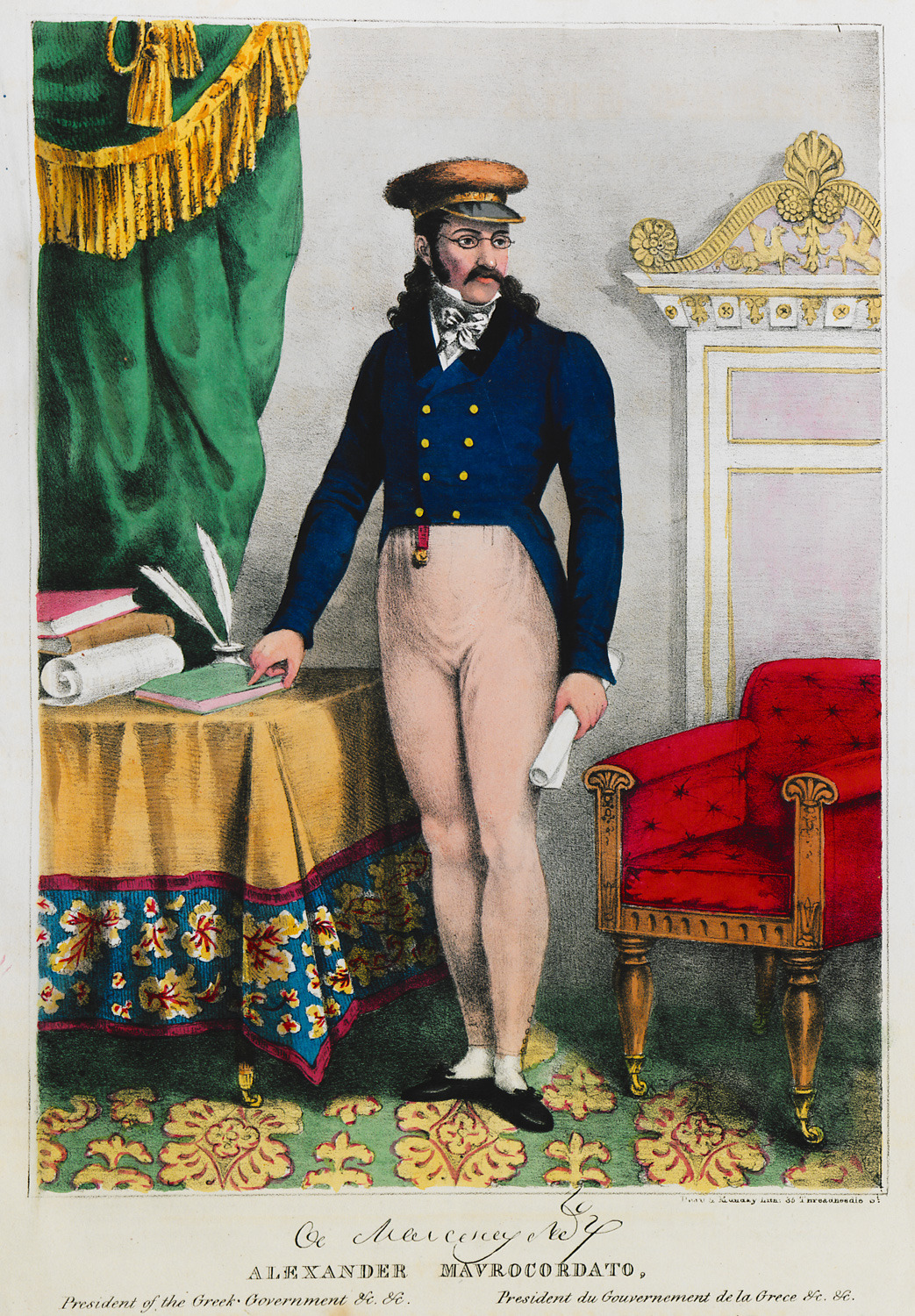 Adam de Friedel. The Greeks, Twenty-four Portraits of the principal Leaders and Personages who have made themselves most conspicuous in the Greek Revolution, from the Commencement of the Struggle, London, Adam de Friedel, 1830.